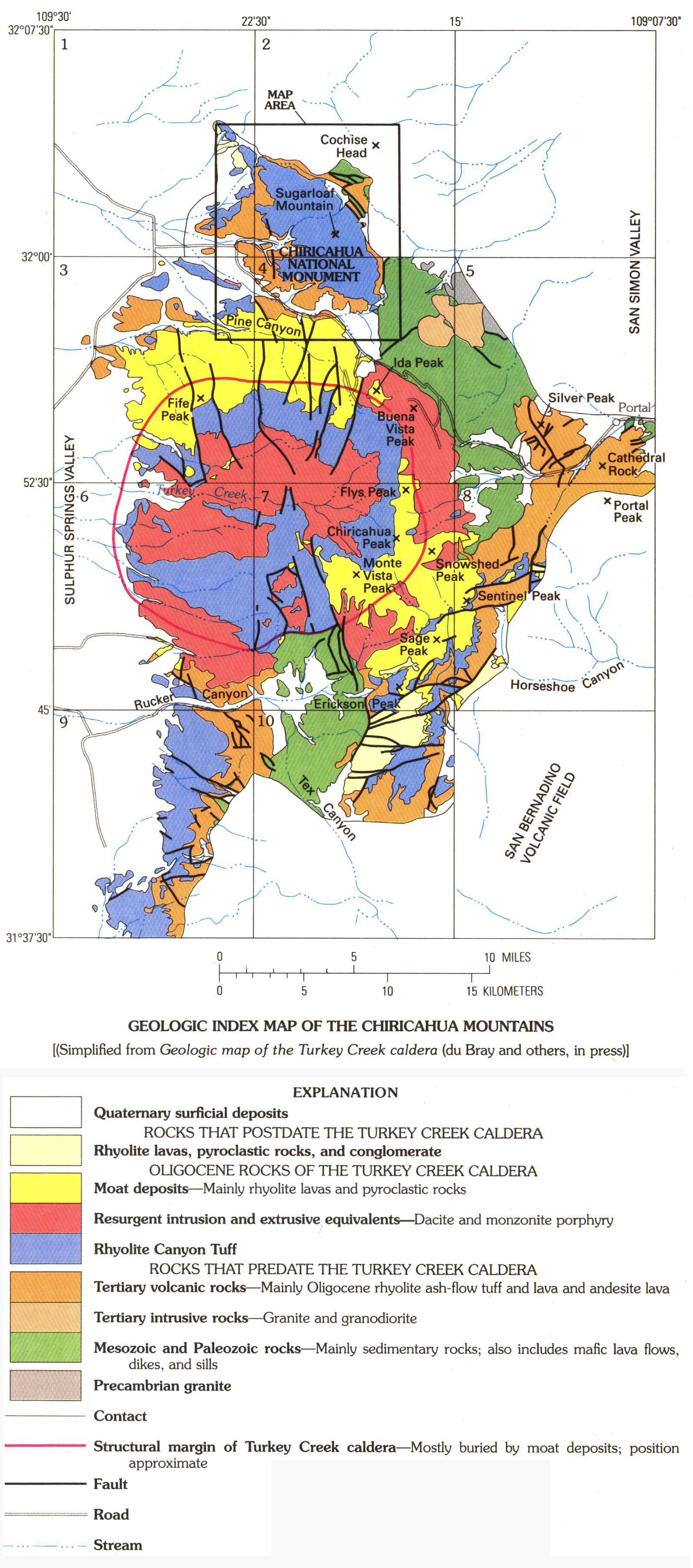 Geologic index map of the Chiricahua Mountains in southeast Arizona.